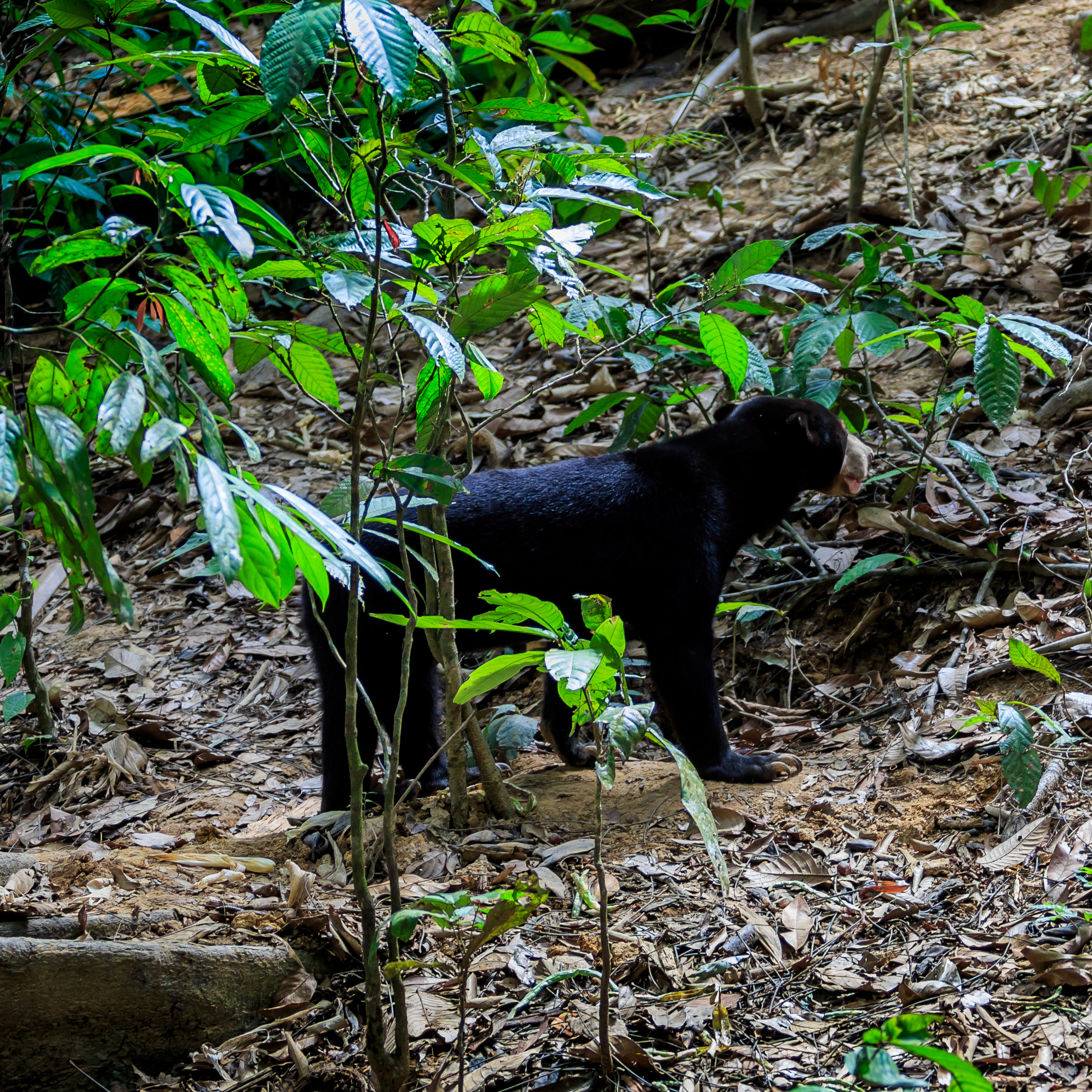 Sepilok, Sabah: Sun bear in the "Bornean Sun Bear Conservation Centre"